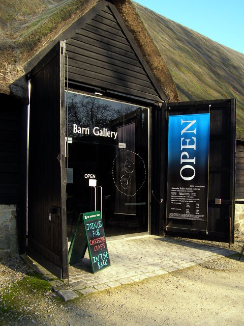 Entrance to the Barn Gallery of the Alexander Keiller Museum. This is the entrance to the National Trust run Barn Gallery of the Alexander Keiller Museum at Avebury. It is housed in an 18th century threshing barn, and the interior is maintained at such a low temperature (in order to preserve the historic building) that most of the archaeological artefacts are displayed in a different gallery where the temperature is better suited to their preservation.